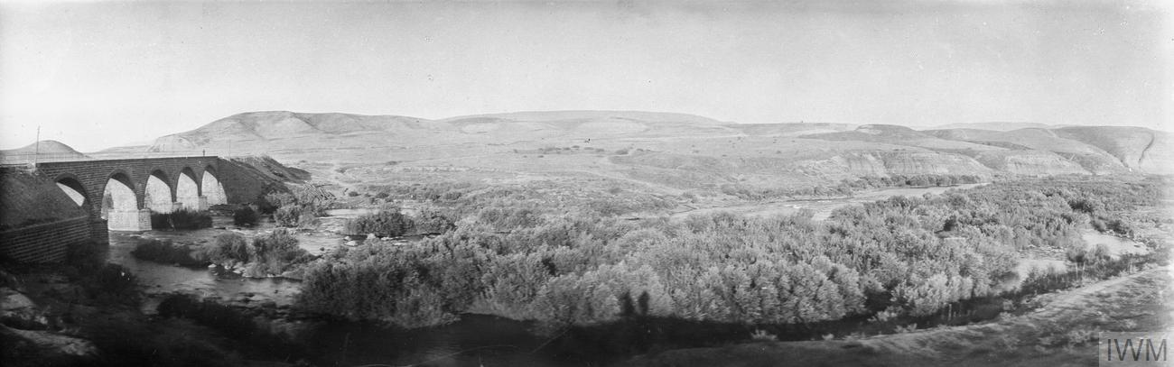 IWM caption : Battles of Megiddo. Railway Bridge over the Jordan at Jisr Majami, which was reached and secured intact by the 19th Lancers on September 20th, having covered some 80 miles since September 19th. (12th Brigade, 4th Cavalry Division).